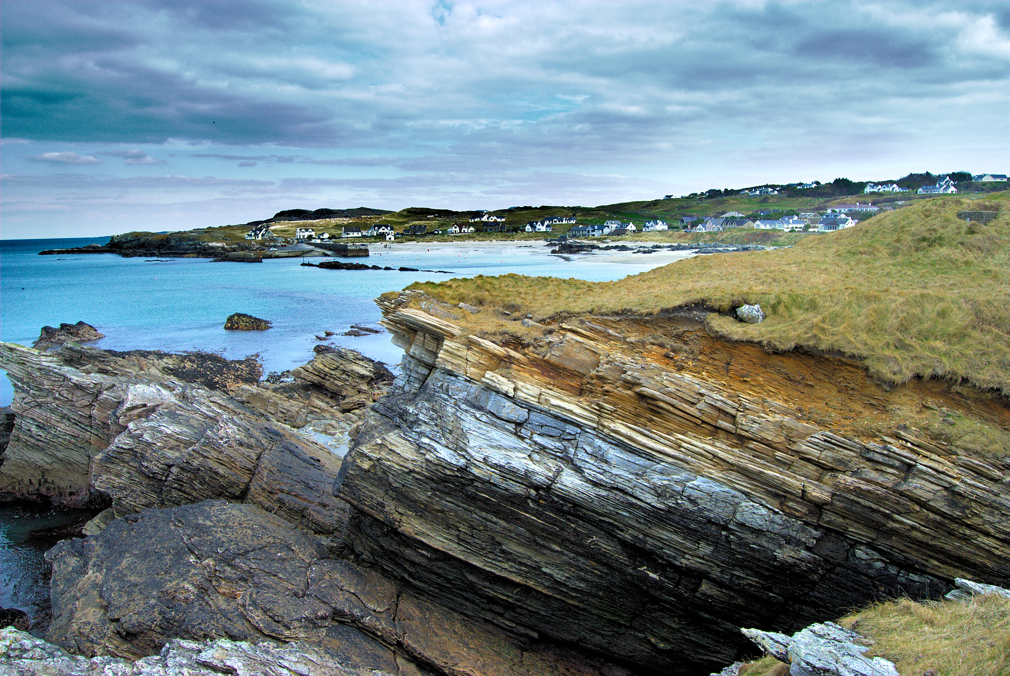 500px provided description: Sheephaven Bay, Co. Donegal, Ireland [#sea ,#ocean ,#bay ,#donegal ,#sheephaven bay]